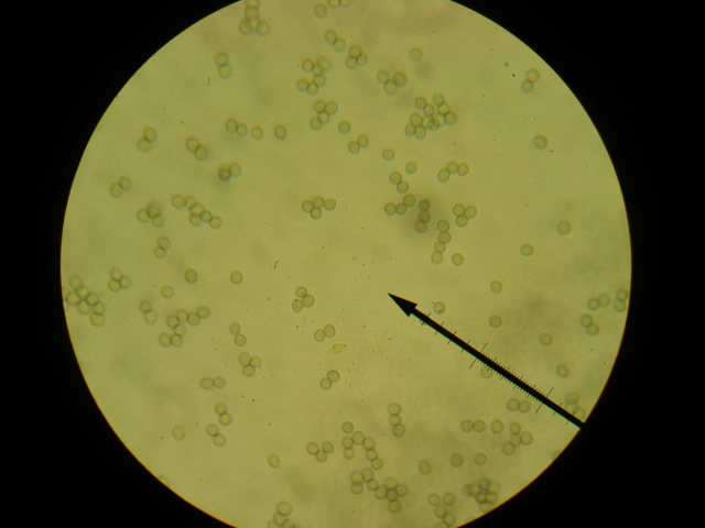 Amanita bisporigera G. F. Atk. Location: Luzerne Co., Pennsylvania, USA Observation Notes: Oak woods. Spores amyloid. Maybe one of the citrina types? Cap surface lacks the shiny appearance I expect in citrina. Also, difficult to characterize stalk base as collarlike or saclike. Spores sub globose to globose. For more information about this, see the observation page at Mushroom Observer.